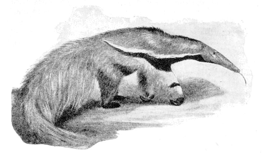 Fig. 91.—Great Anteater. Myrmecophaga jubata. × 1⁄10. Myrmecophaga jubata is a synonym of M. tridactyla.